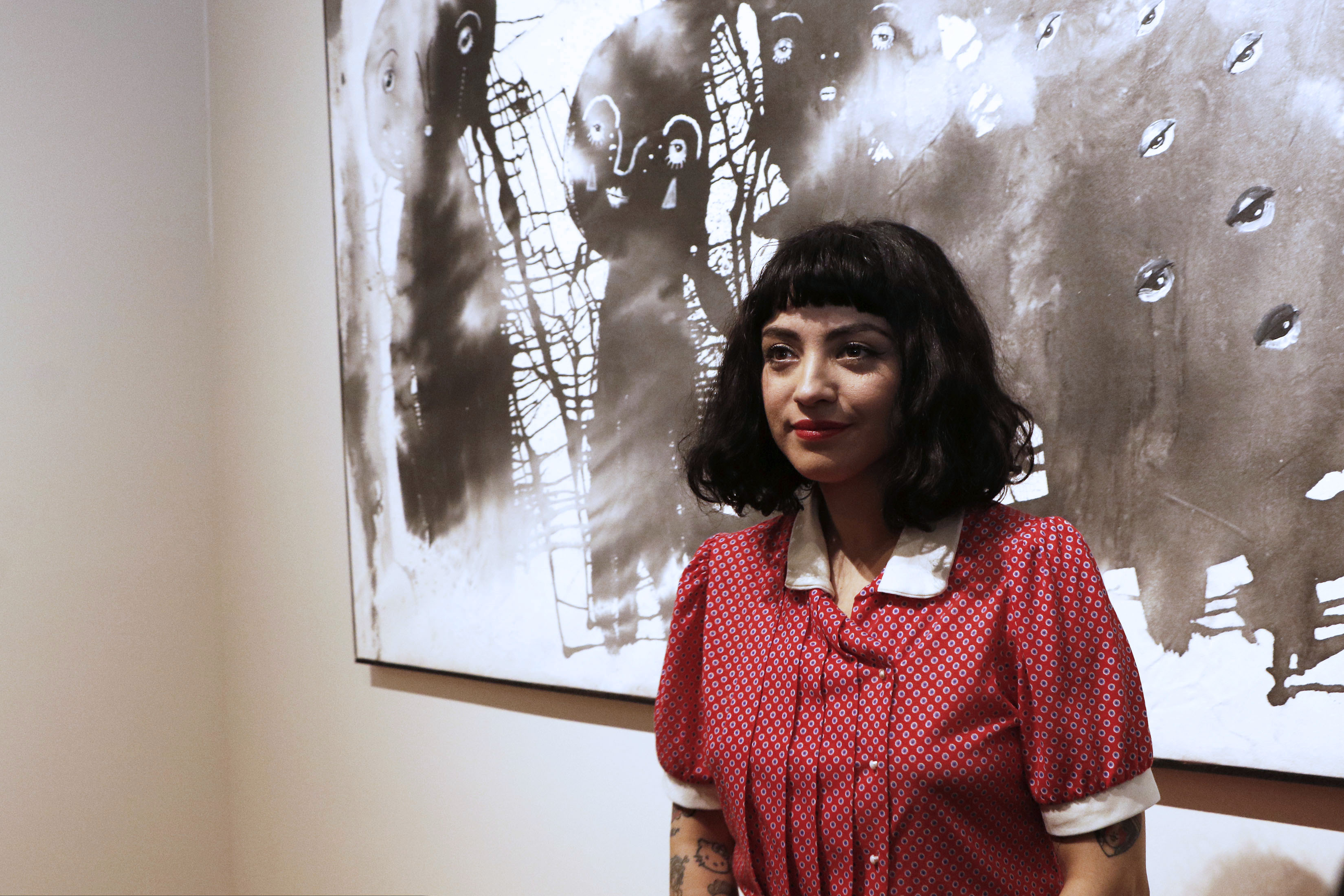 Mon Laferte at the opening of her solo exhibition in the Mexico City Museum. 11 April 2020. Picture by Tania Victoria / Secretaria de Cultura de la Ciudad de Mexico.